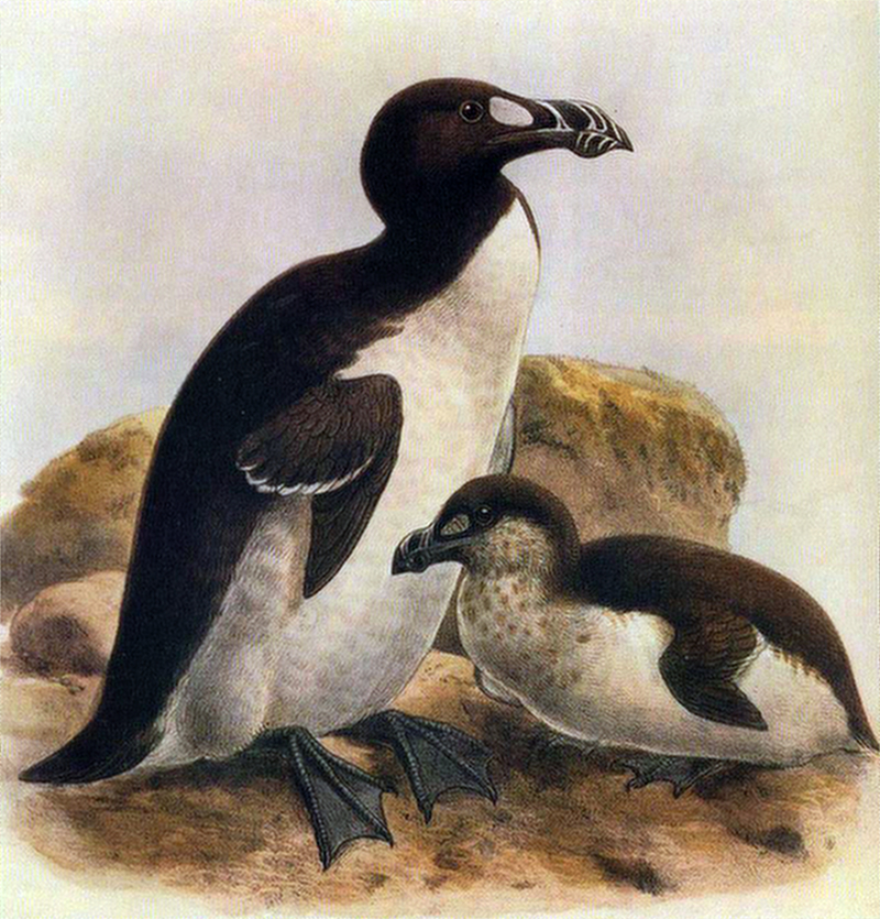 Great Auks by John Gerrard Keulemans and commissioned by the 19th century ornithological writer H.E. Dresser.